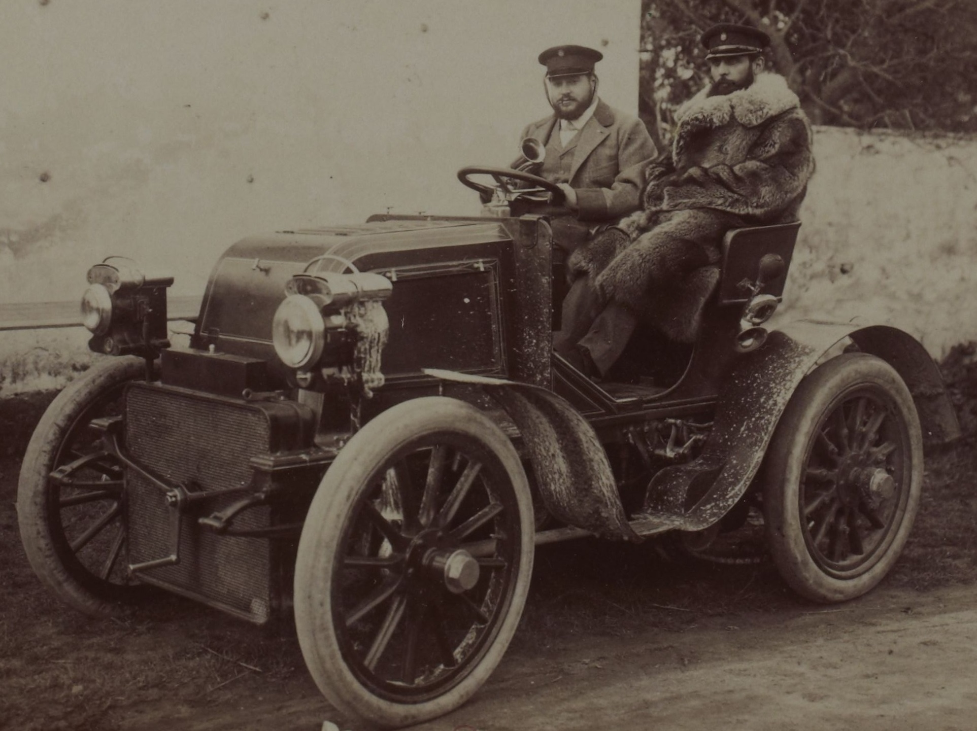 [Collection Jules Beau. Photographie sportive] : T. 12. Années 1899 et 1900 / Jules Beau : F. 33. Concours de côte de Chanteloup, organisé par Le Vélo, 4 septembre 1900